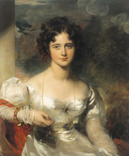 Rosamond Hester Elizabeth Pennell Croker, later Lady Barrow (1809-1906) was painted by Lawrence in 1826. When exhibited at the RA in 1827, it was highly praised and often surround by admiring patrons. She married George Barrow when she was 22 and was later Lady Barrow. A favourite of George IV, she was rumoured to have been kissed by three kings. This Thomas Lawrence portrait is now in Buffalo, at the Albright-Knox Gallery. The portrait was painted in 1827, a year later Samuel Cousins did a famous black and white print based on it